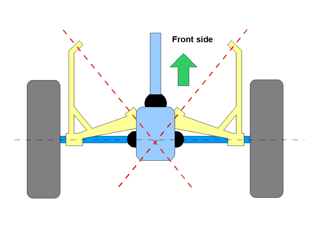 A schematic view of a Diagonal swing axle suspension.